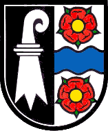 Coat of arms of Röschenz, Switzerland